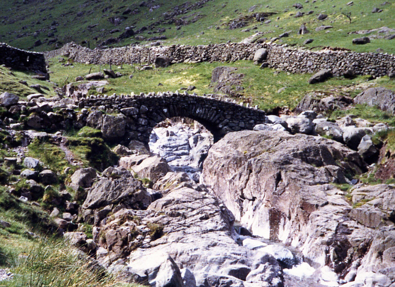 Stockley Bridge over Grains Gill in Borrowdale, Cumbria